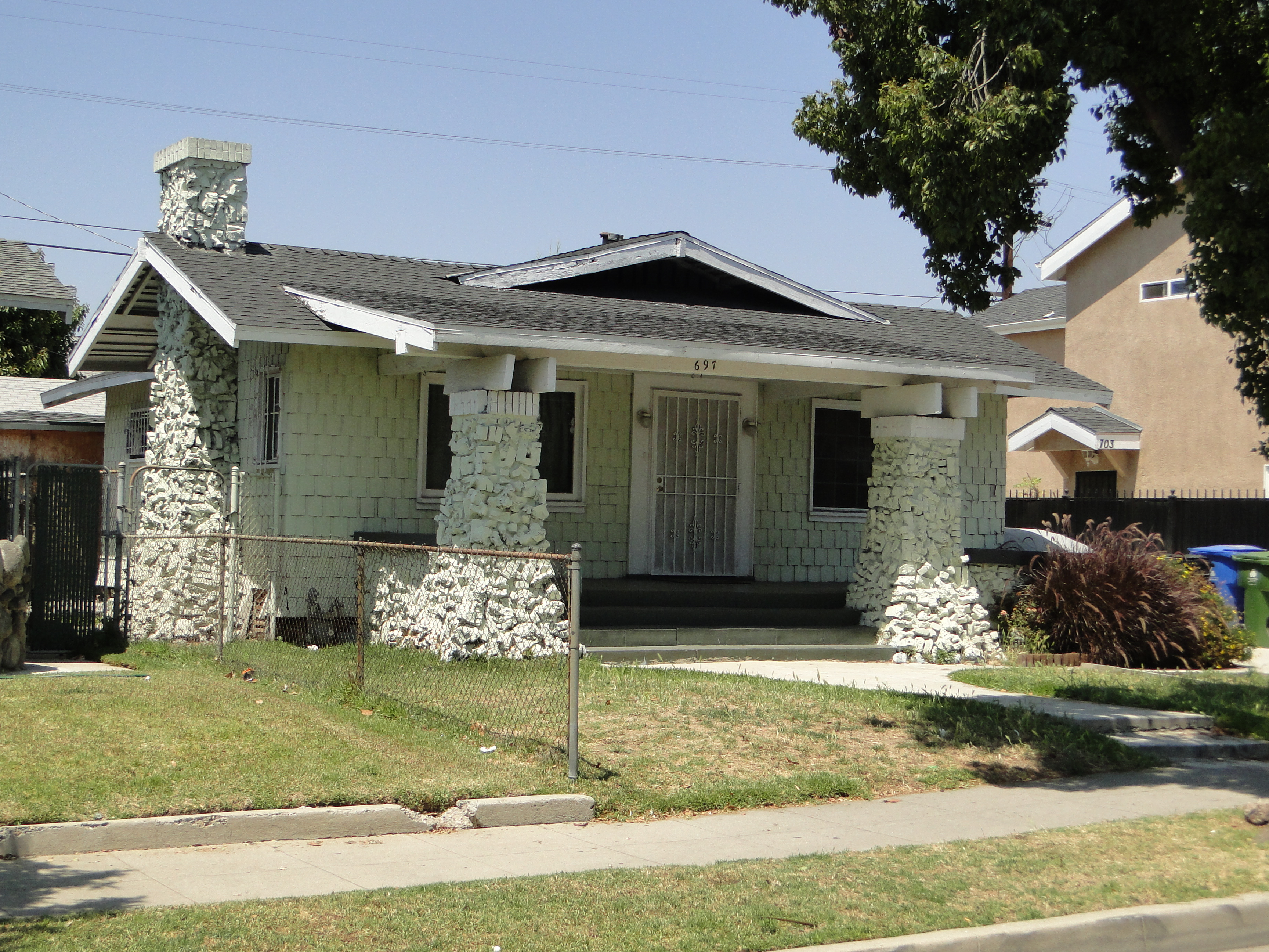 Charlotta Bass House — 697 E. 52nd Place, South Los Angeles, California. Within the 52nd Place Historic District, on the National Register of Historic Places in Los Angeles.